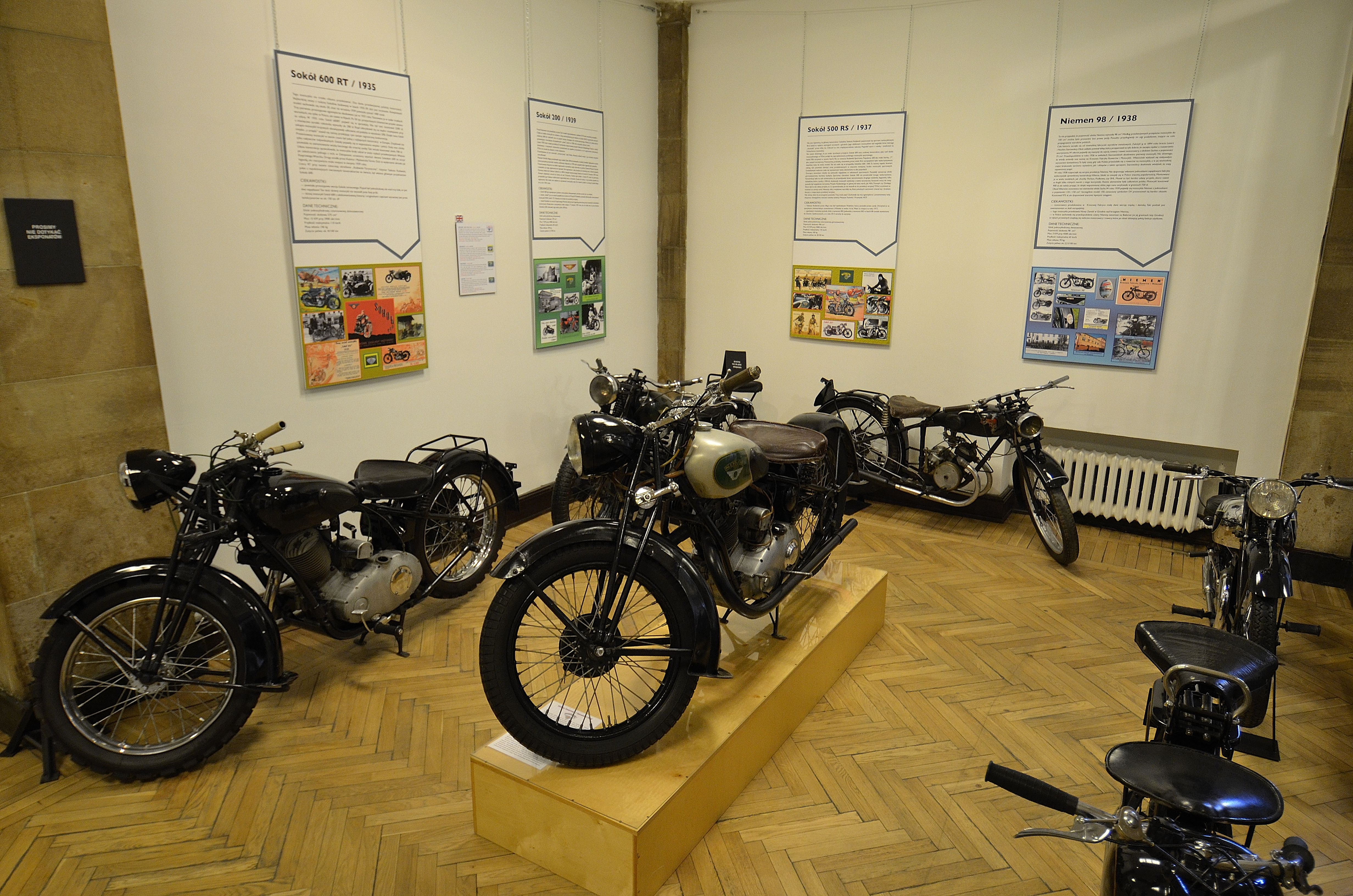 Sokół motorcycles in the Museum of Technology in Warsaw